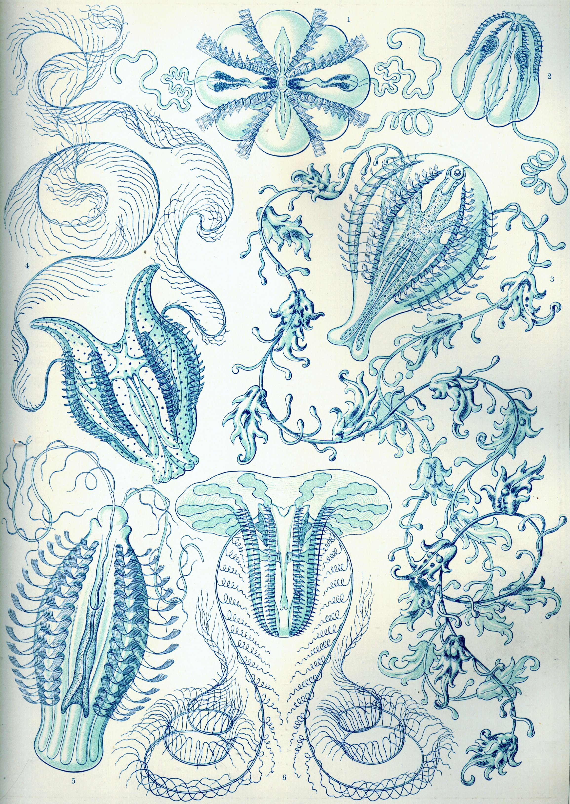 Enlarge image for index to numbers. Haeckelia rubra (Victor Carus, 1862) = Haeckelia rubra (Gegenbaur, Kölliker & Müller, 1853), from above Haeckelia rubra (Victor Carus, 1862) = Haeckelia rubra (Gegenbaur, Kölliker & Müller, 1853), from the side Hormiphora foliosa (Haeckel) = Hormiphora sp., from the side Callianira bialata (Delle Chiaje) = Callianira bialata Delle Chiaje, 1841, from the side Tinerfe cyanea (Chun) = Tinerfe cyanea (Chun, 1889), from the side Lampetia pancerina (Chun) = Lampea pancerina (Chun, 1879), from the side